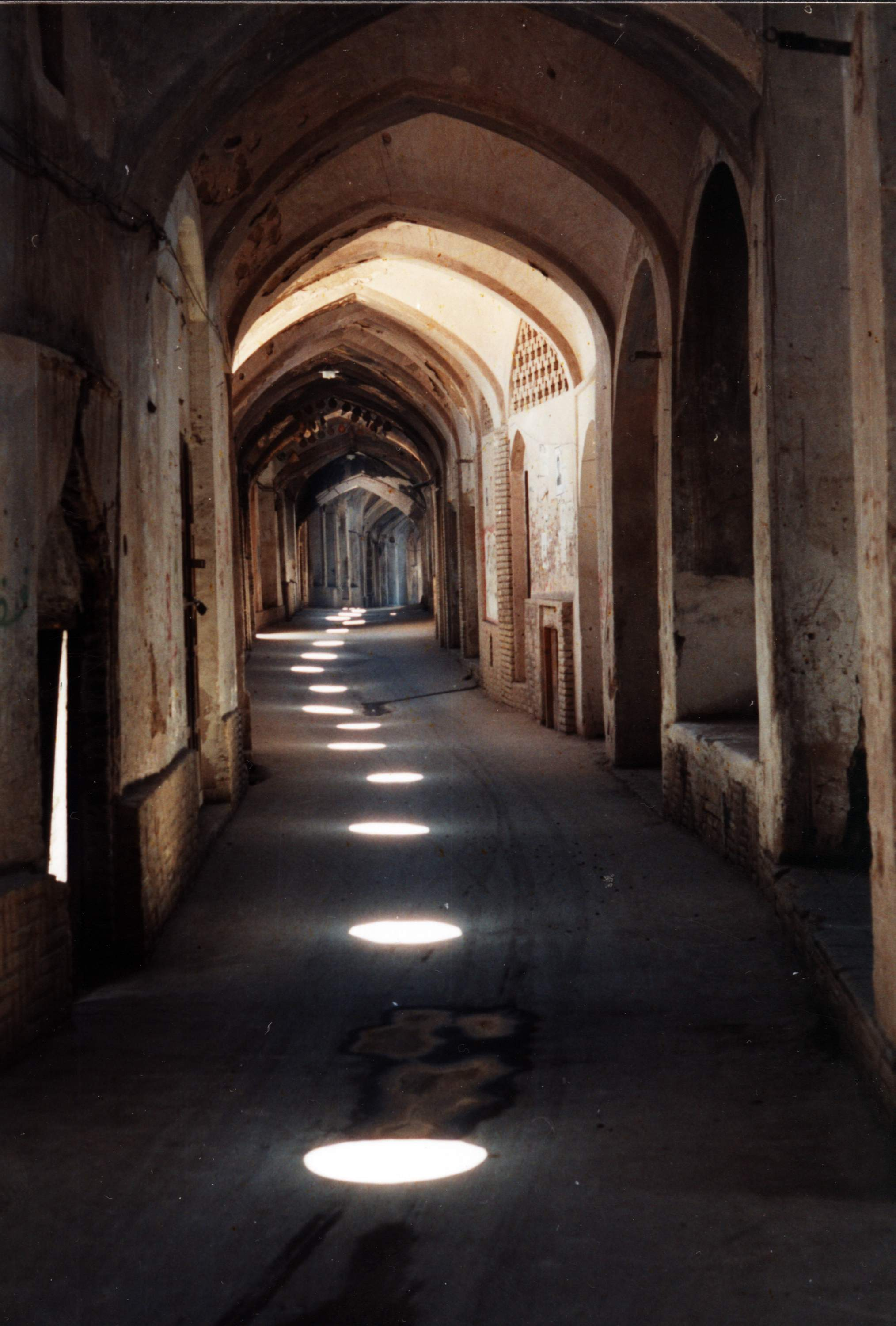 Na'in old bazar